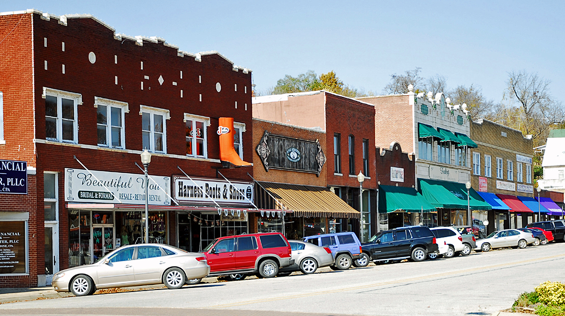 Harrison's historic central business district